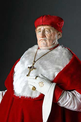 Historical figure of Cardinal Thomas Wolsey